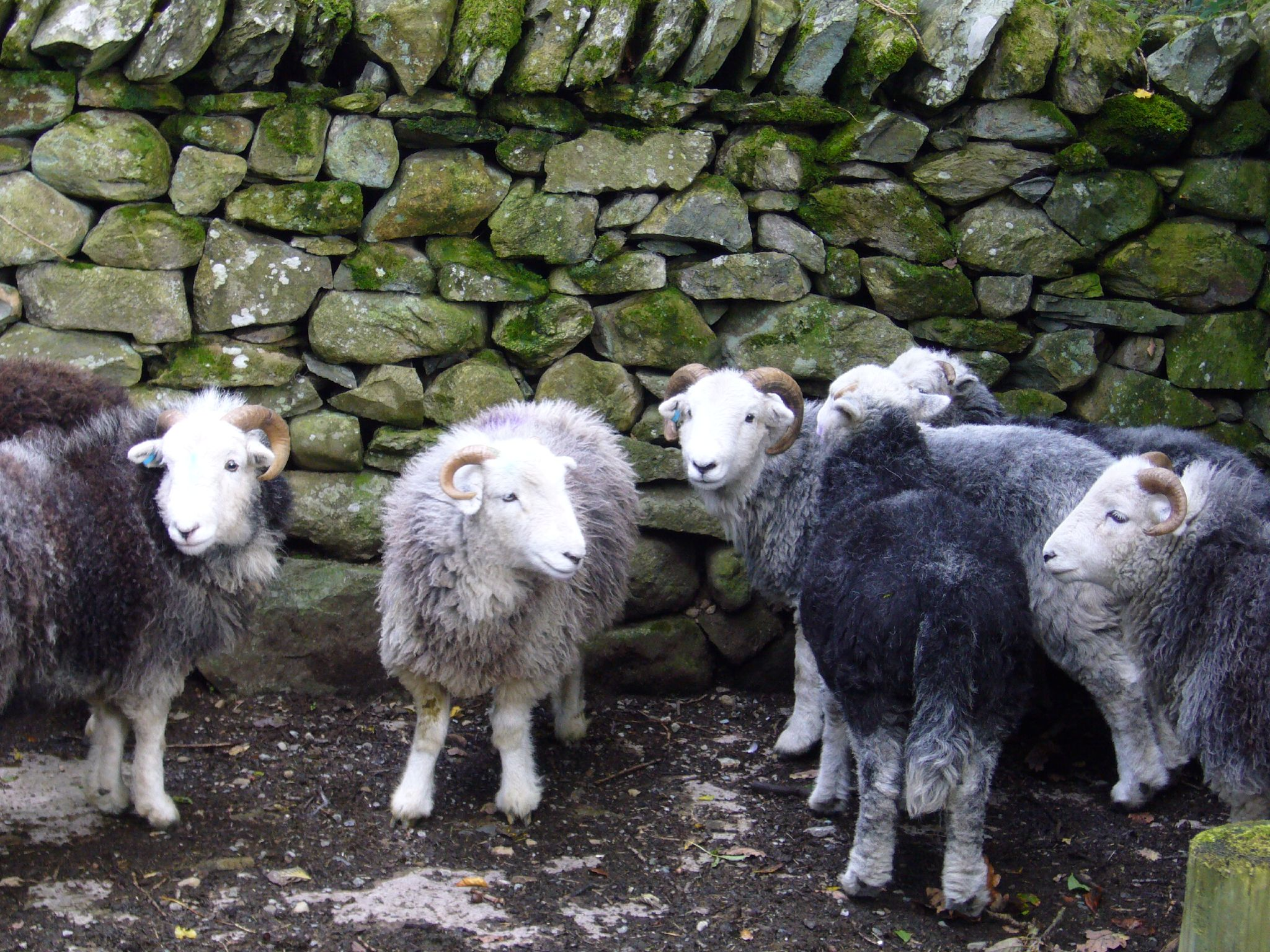 This pack of sheep were obviously deciding which tourist to terrorise next